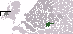 Location of Dordrecht